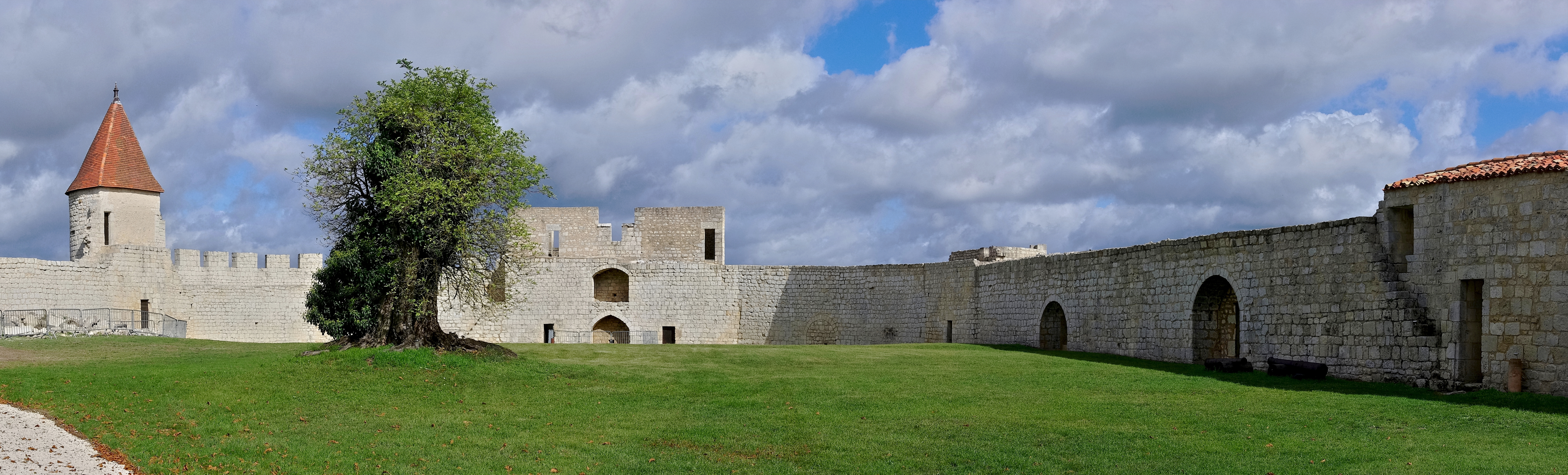 Courtyard being restored, castle (12th-13th centuries) of Villebois-Lavalette, Charente, France.